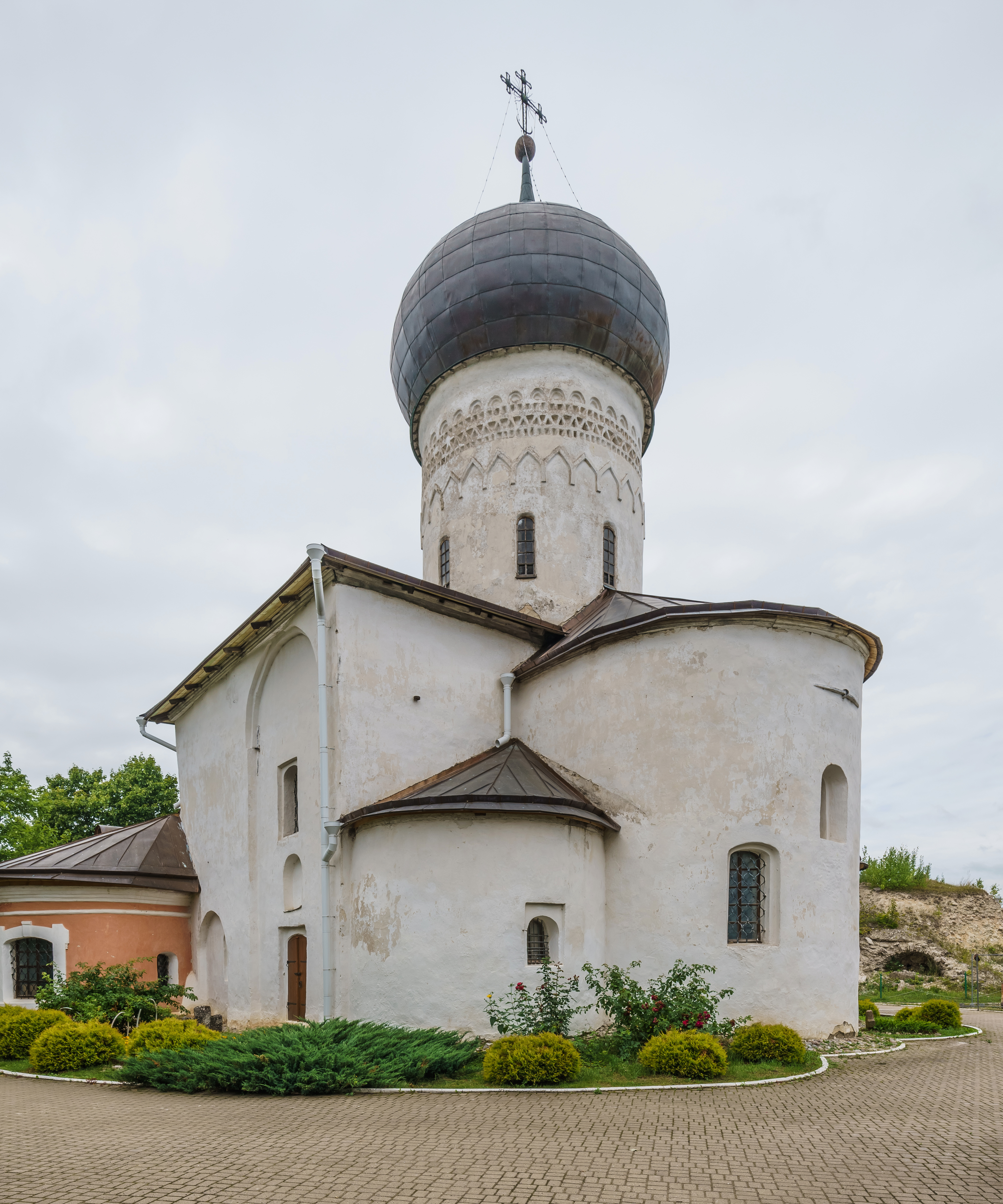 Church of the Nativity of St. Mary in Snetogorsky Monastery in Pskov, Russia